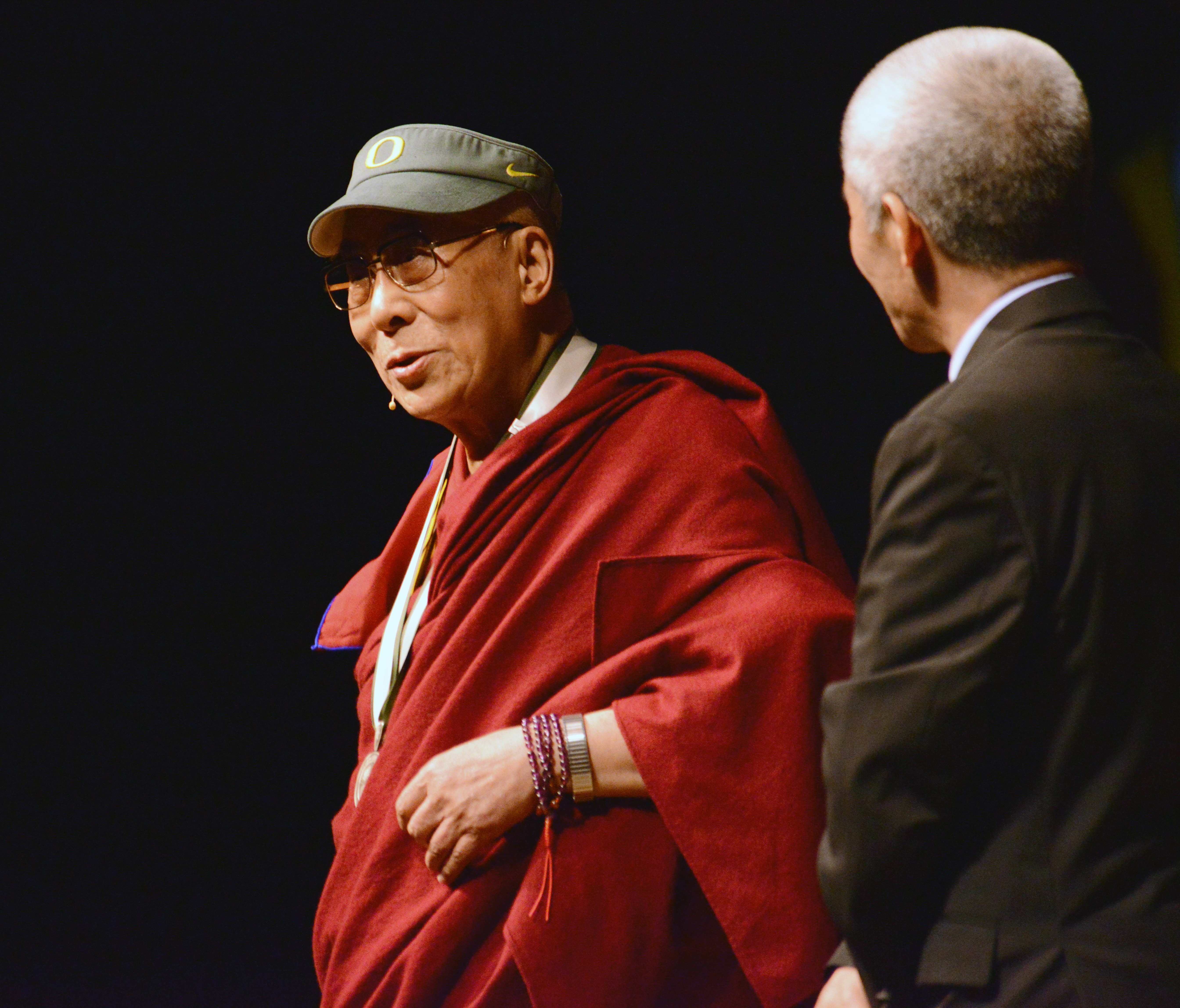 The 14th Dalai Lama, Tenzin Gyatso, speaks to a sold-out crowd of 11,000 at the University of Oregon’s Matthew Knight Arena, in Eugene, Ore., May 10. Members of the Oregon National Guard’s 102 Civil Support Team worked with law enforcement to help secure the event and ensure public safety. (Photo by Staff Sgt. April Davis, Oregon Military Department Public Affairs)